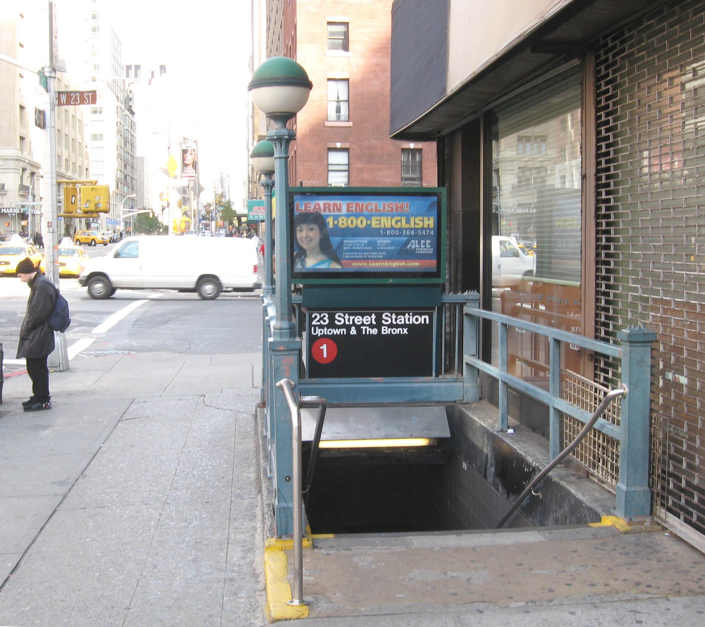 Looking north at en:23rd Street (IRT Broadway–Seventh Avenue Line) street stair on a sunny late morning